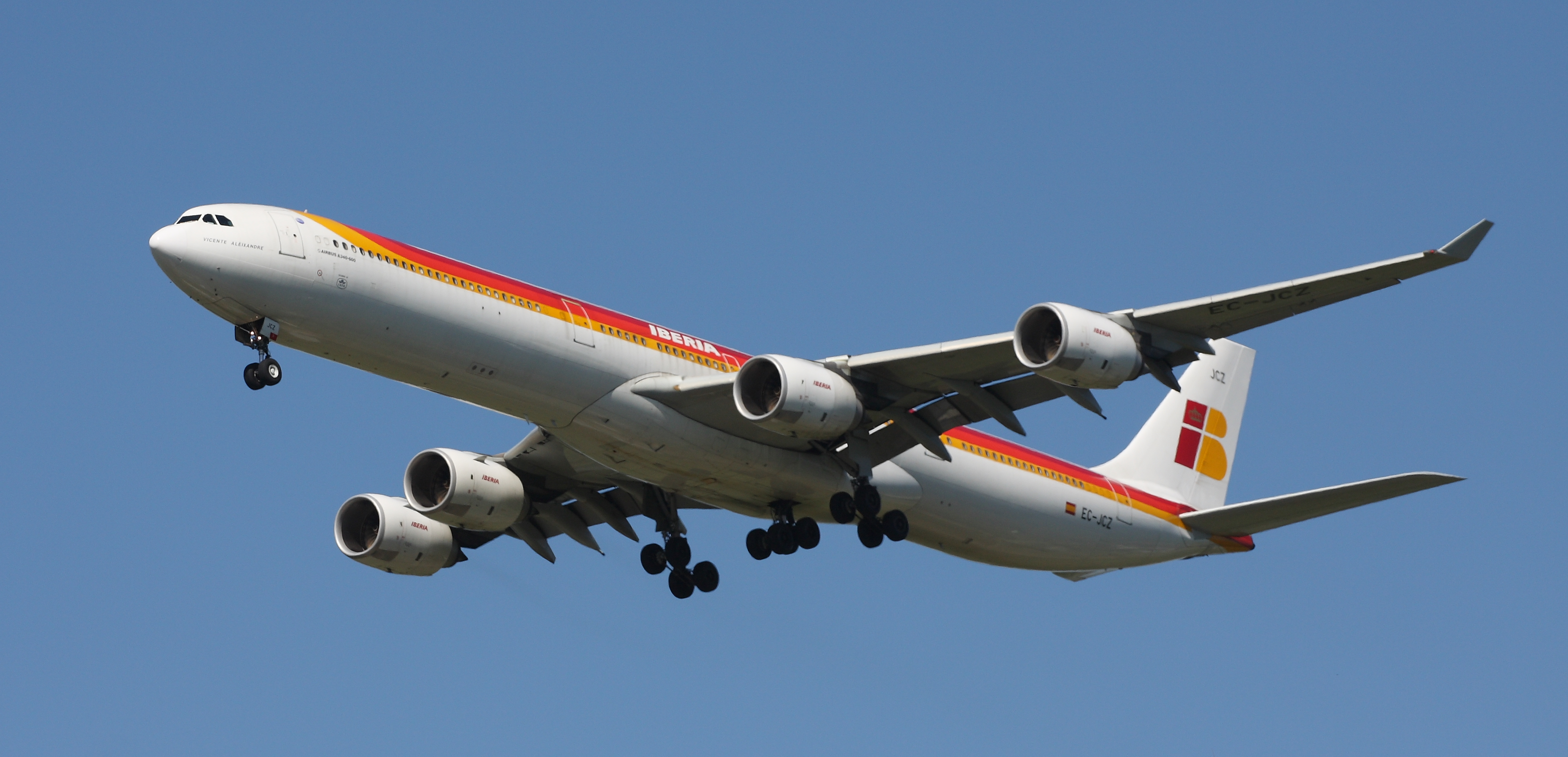 Biiig boy ready for landing